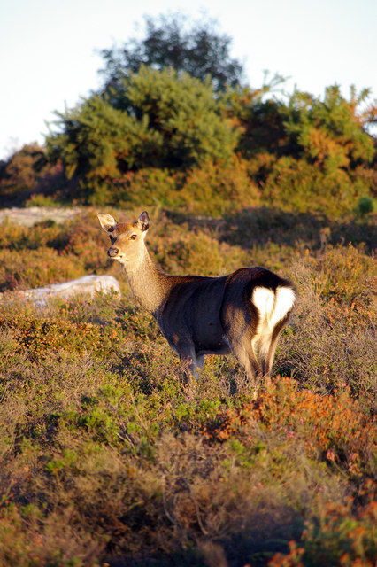 Sika doe on lowland heath near Shipstal Point. The RSPB's Arne reserve has a herd of around 100 sika deer.